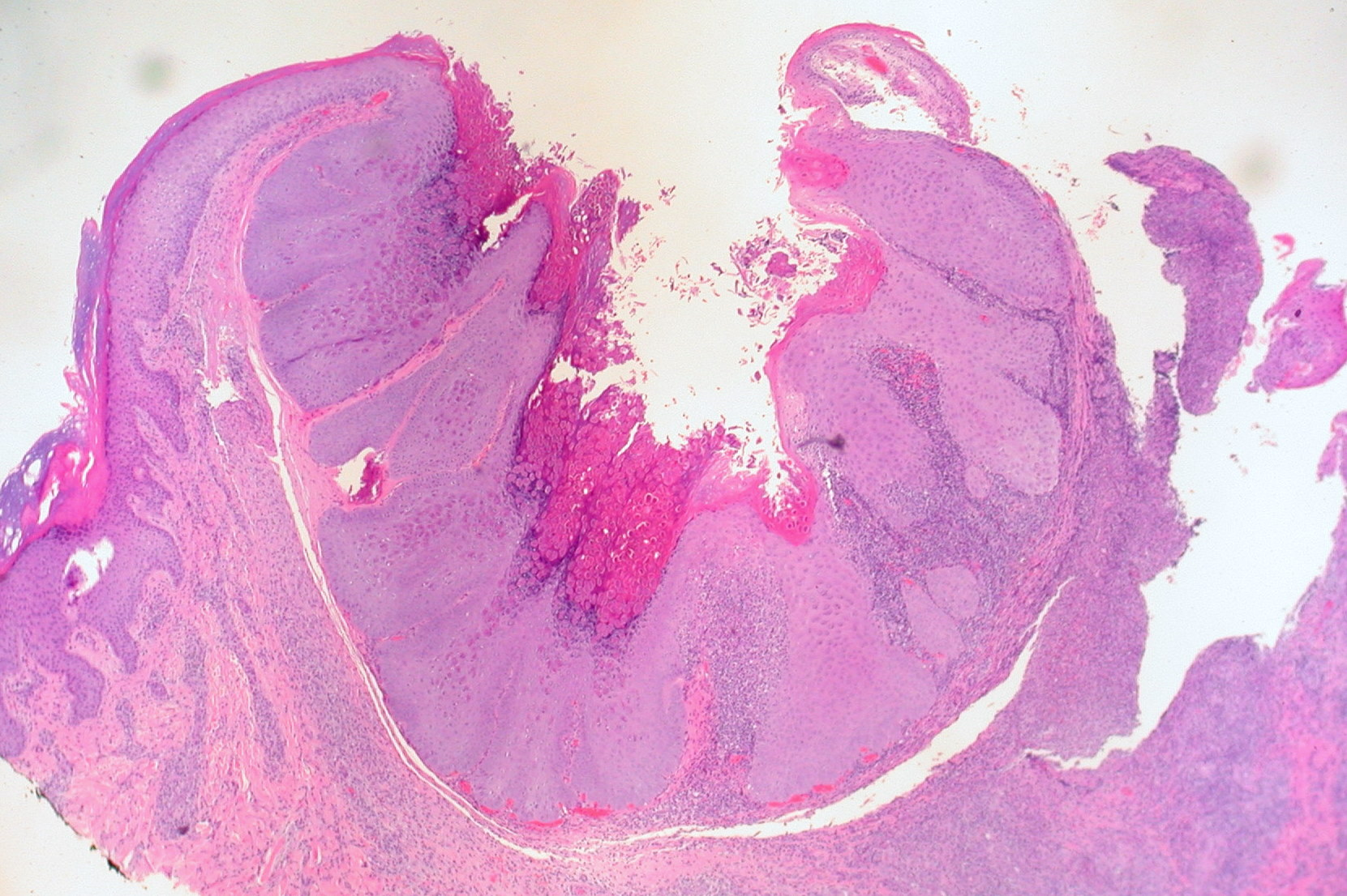 Molluscum Contagiosum Pathological and histological images courtesy of Ed Uthman at flickr.